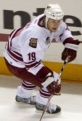 Phoenix Coyotes vs. San Jose Sharks